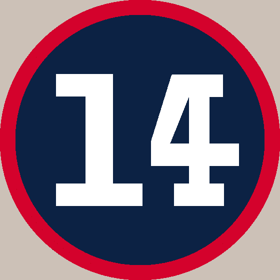 Player: Larry Doby. A recreation of how it looks at Progressive Field, in which the background is beige on a blue circle with white numbers and red circling.